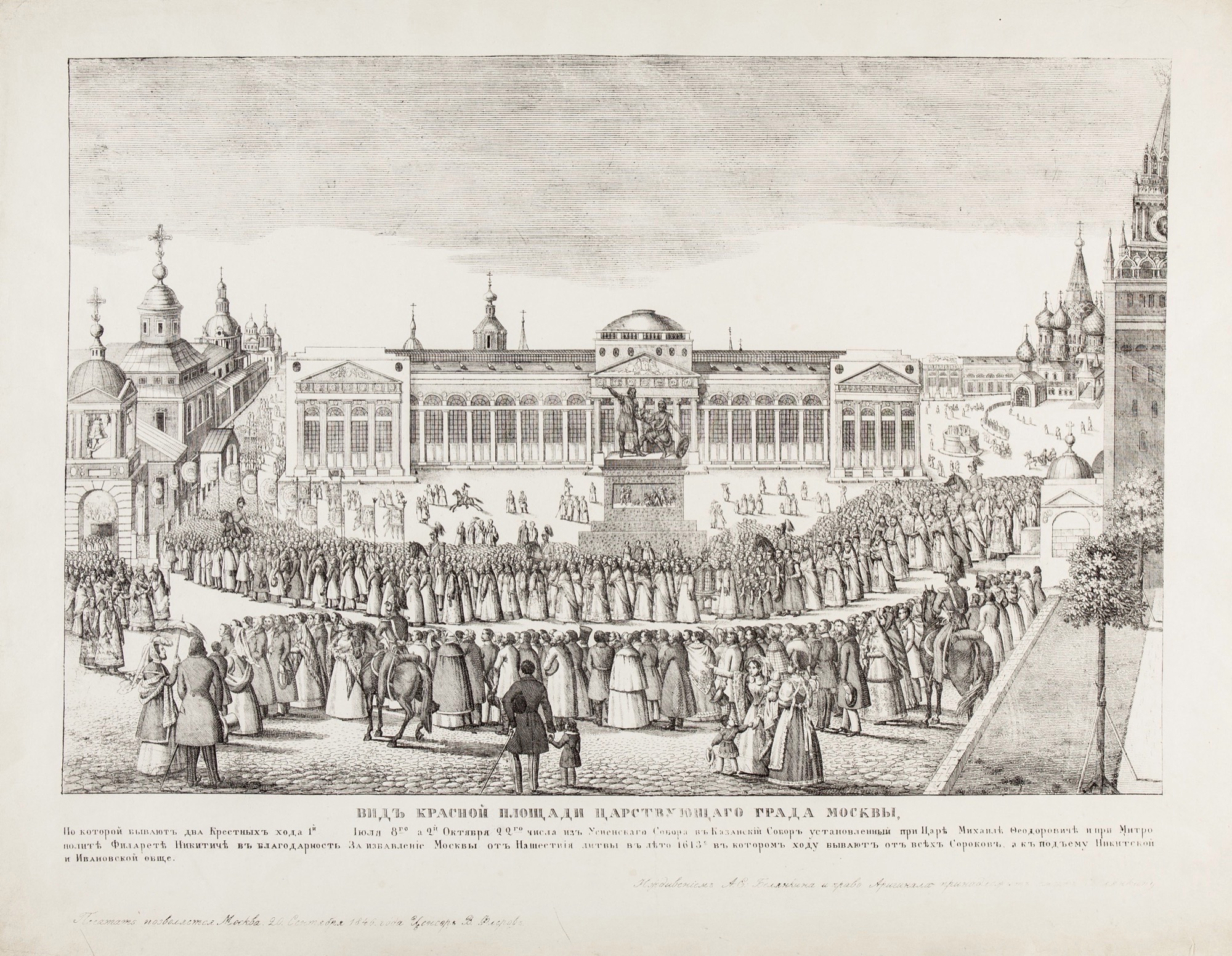 Minin and Pozharsky Monument in Moscow. A 1846 engraved print showing an orthodox cross procession in Red Square. Caption says that there were two processions annually, on July 8 and October 22, established by Mikhail Romanov. Head-on, geometrically 'perfect' drawing of buildings distorted their real-world proportions and placement (especially vertically).